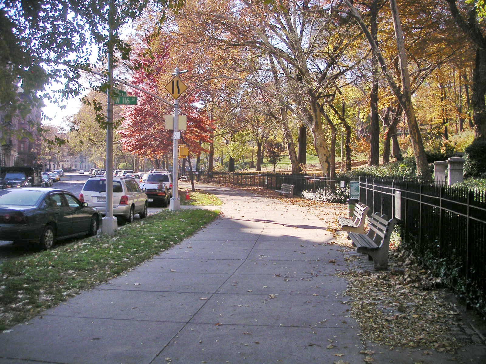 Looking south at Morningside Avenue and 116th Street, Morningside Park, New York City. These Harlem apartments on 115th street can be seen in the background.